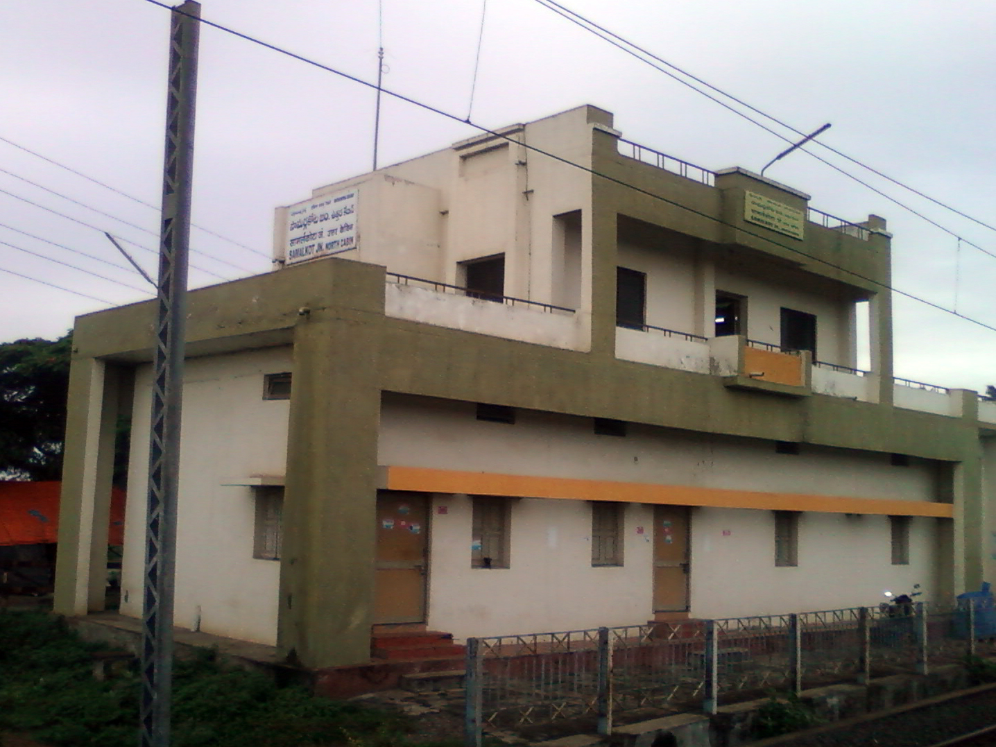 North Cabin of Samalkot Junction Railway Station, Andhra Pradesh